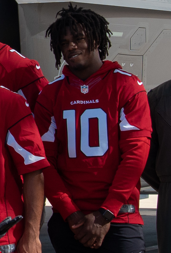 Member of the Arizona Cardinals and 61st Fighter Squadron pose for a group photo in front of an F-35A Lightning II during a visit Nov. 6, 2018 at Luke Air Force Base, Ariz. The Cardinals were given an in-depth view of the F-35 as part of their tour of Luke AFB. (U.S. Air Force photo by Airman 1st Class Aspen Reid)